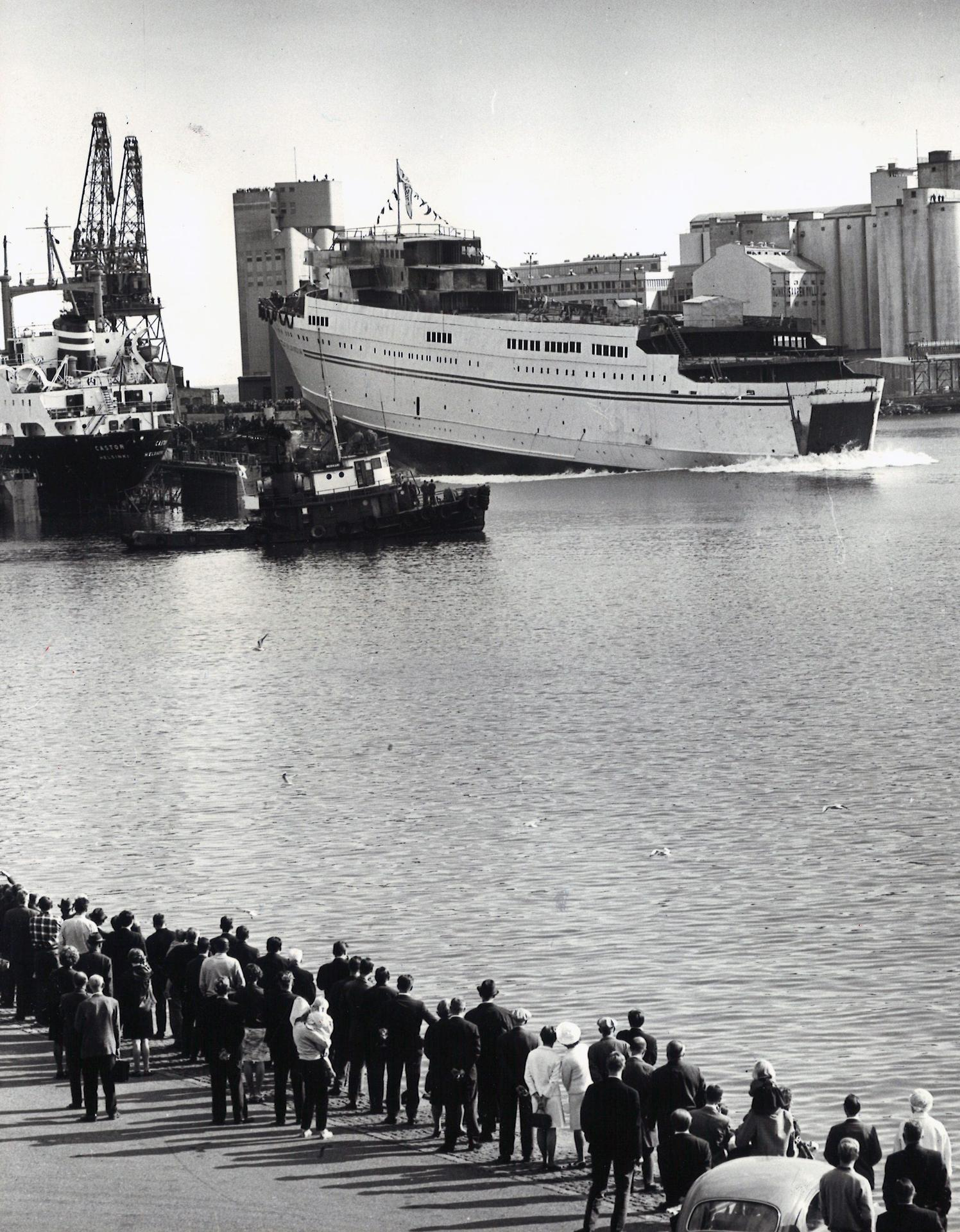 Photograph of cruiseferry Finlandia bring launched.